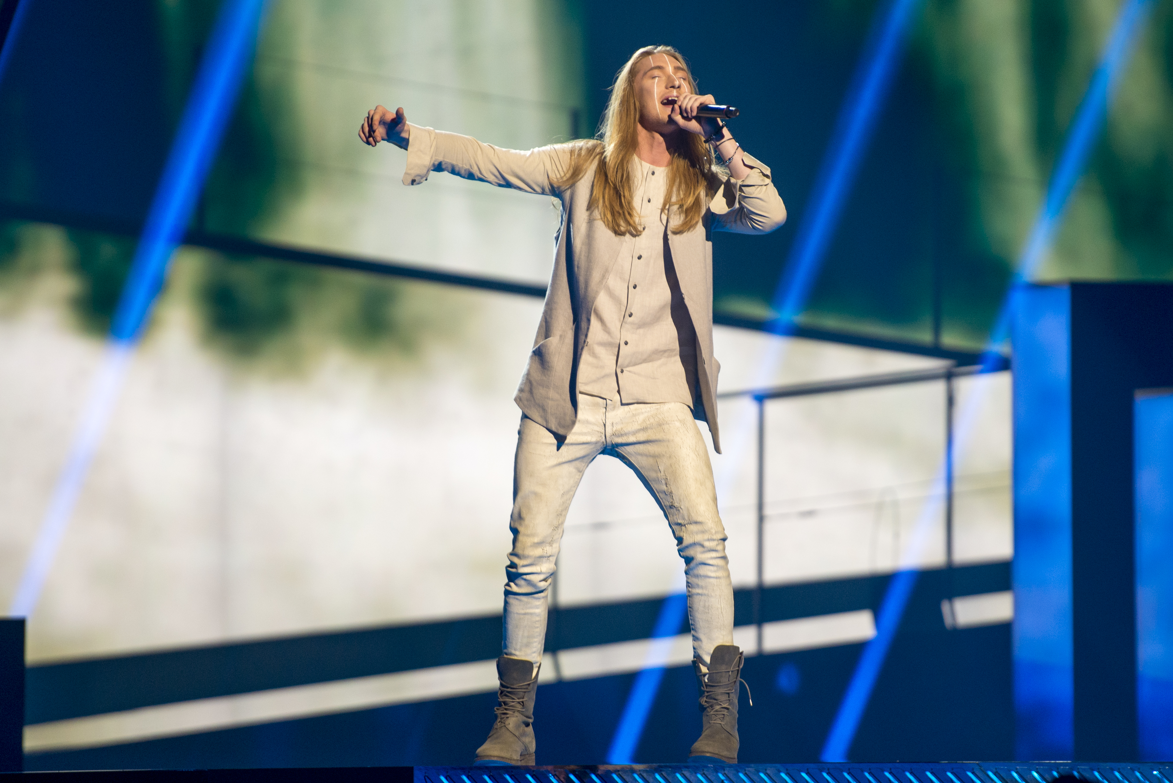 Ivan representing Belarus with the song "Help You Fly" during a rehearsal before the second semi final of the Eurovision Song Contest 2016 in Stockholm. (Help translate this text)